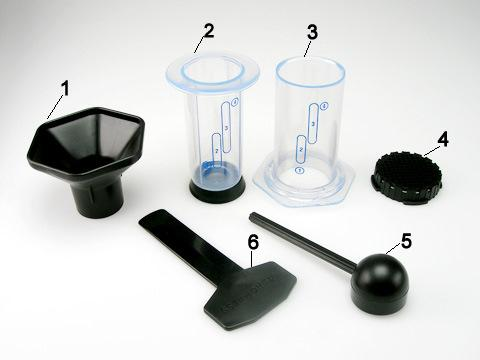 The AeroPress coffe maker setup